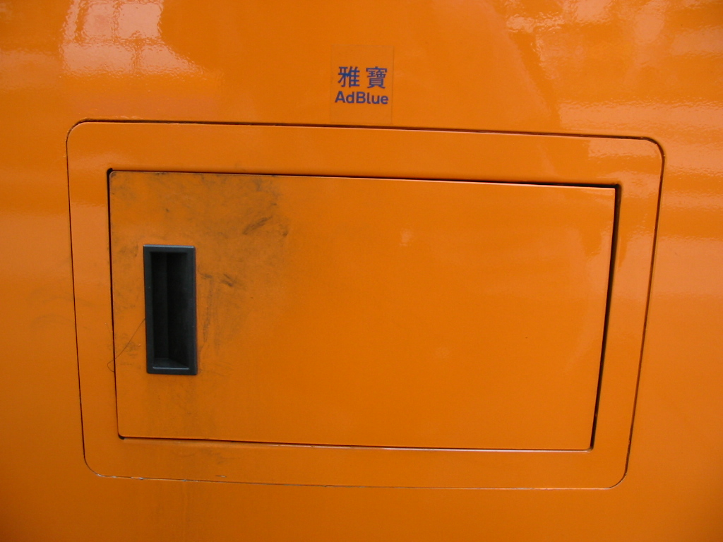 AdBlue tank inlet of an NWFB Euro4 bus.